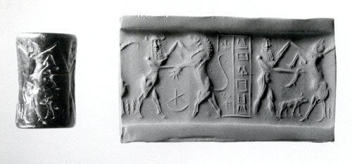 Akkadian; Cylinder seal; Stone-Cylinder Seals-Inscribed